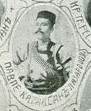 Portrait of IMARO member Pavel Karaasanovski